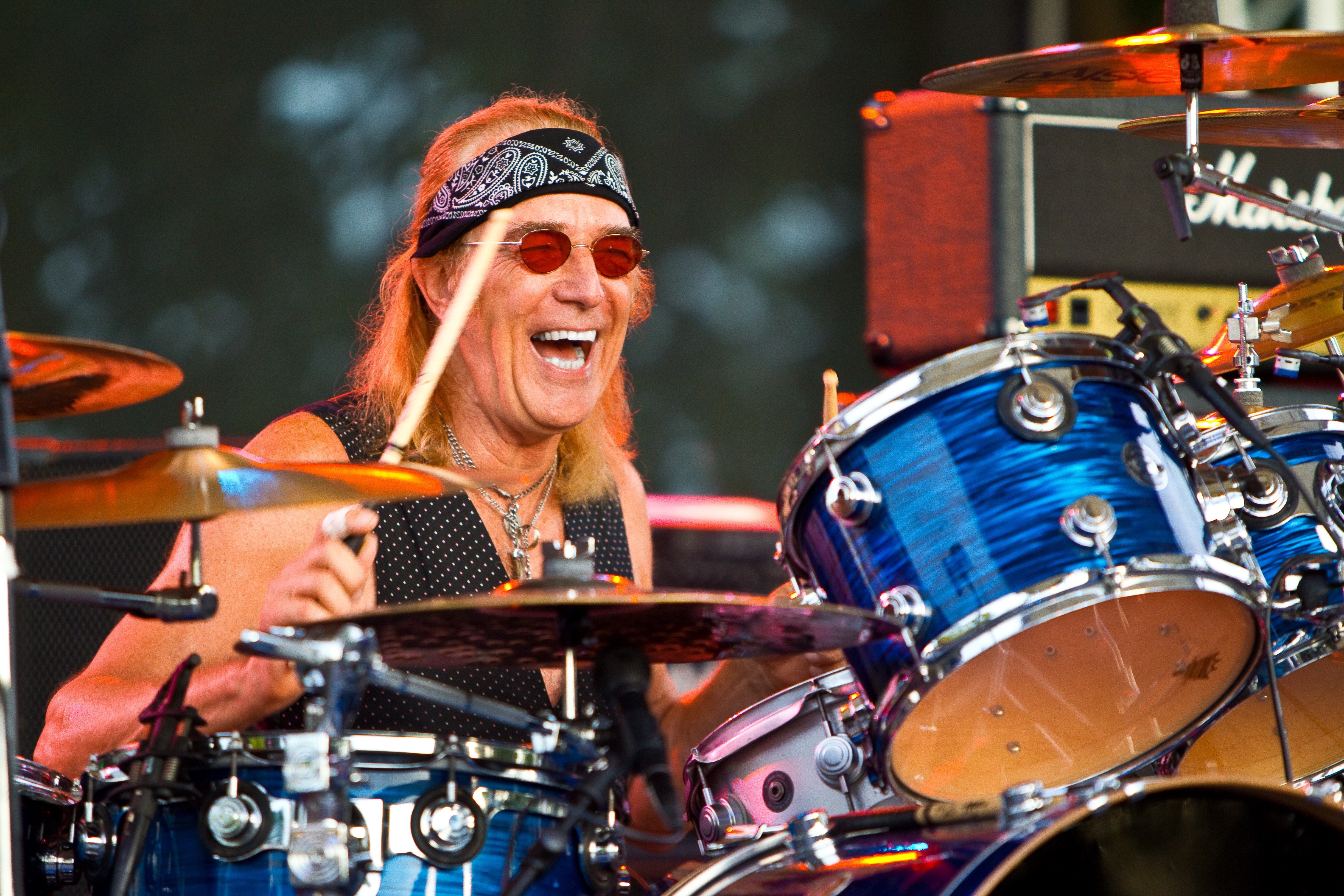 Roger Earl, Foghat's drummer, performing in the town of Enfield, CT